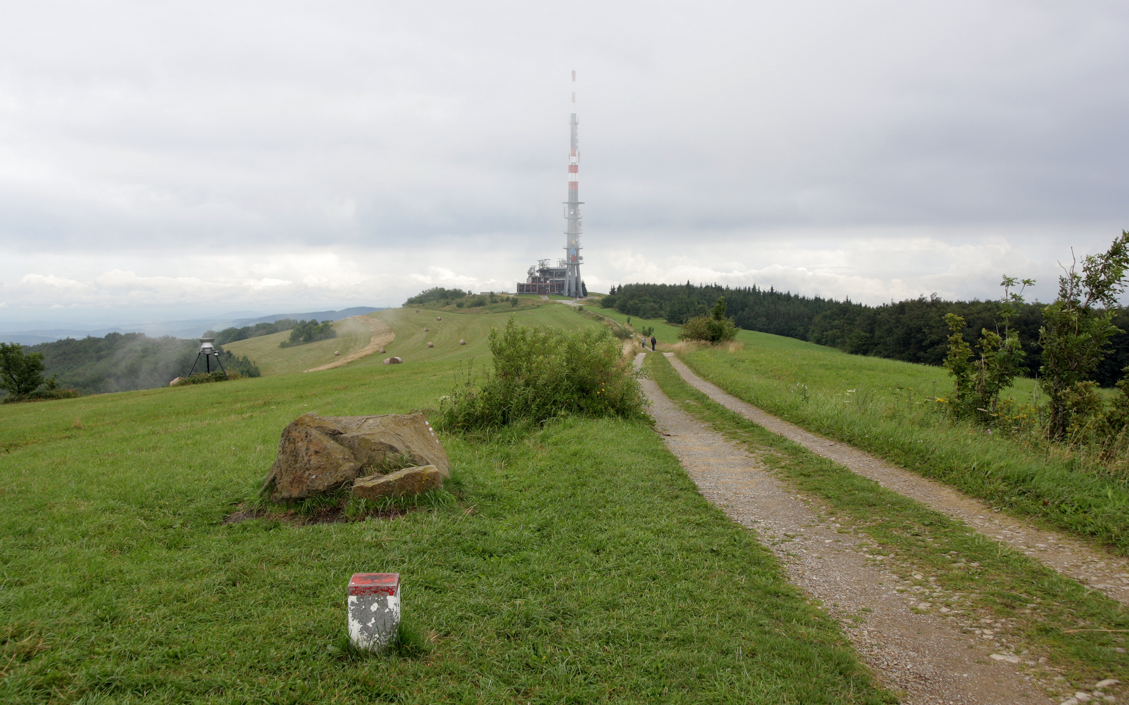 White Carpathians, Velká Javořina - mountain ridge with Veľká Javorina radio and TV tower